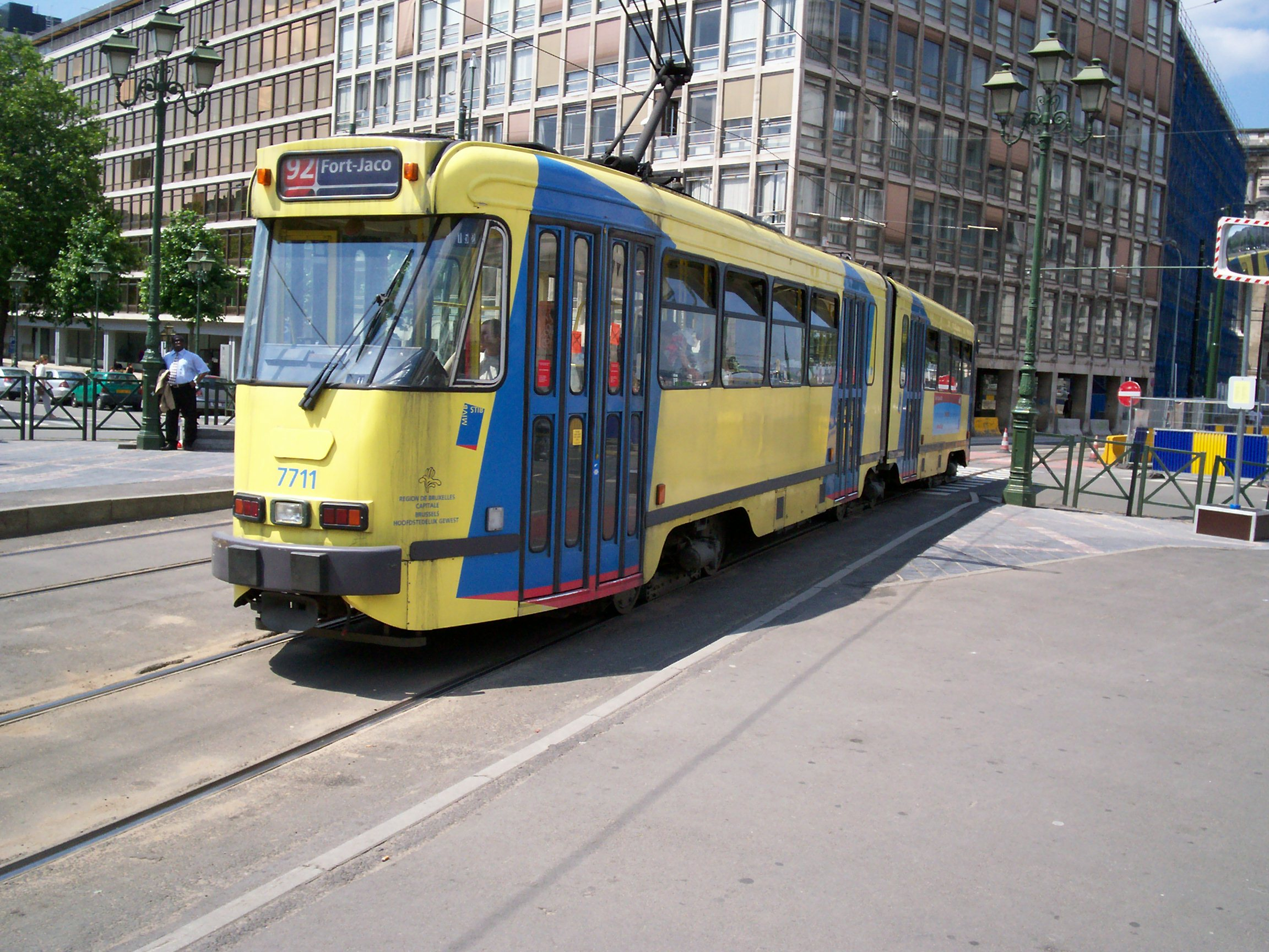 PCC 7700 on the line 92 leaving Louise and going to Schaerbeek Station.